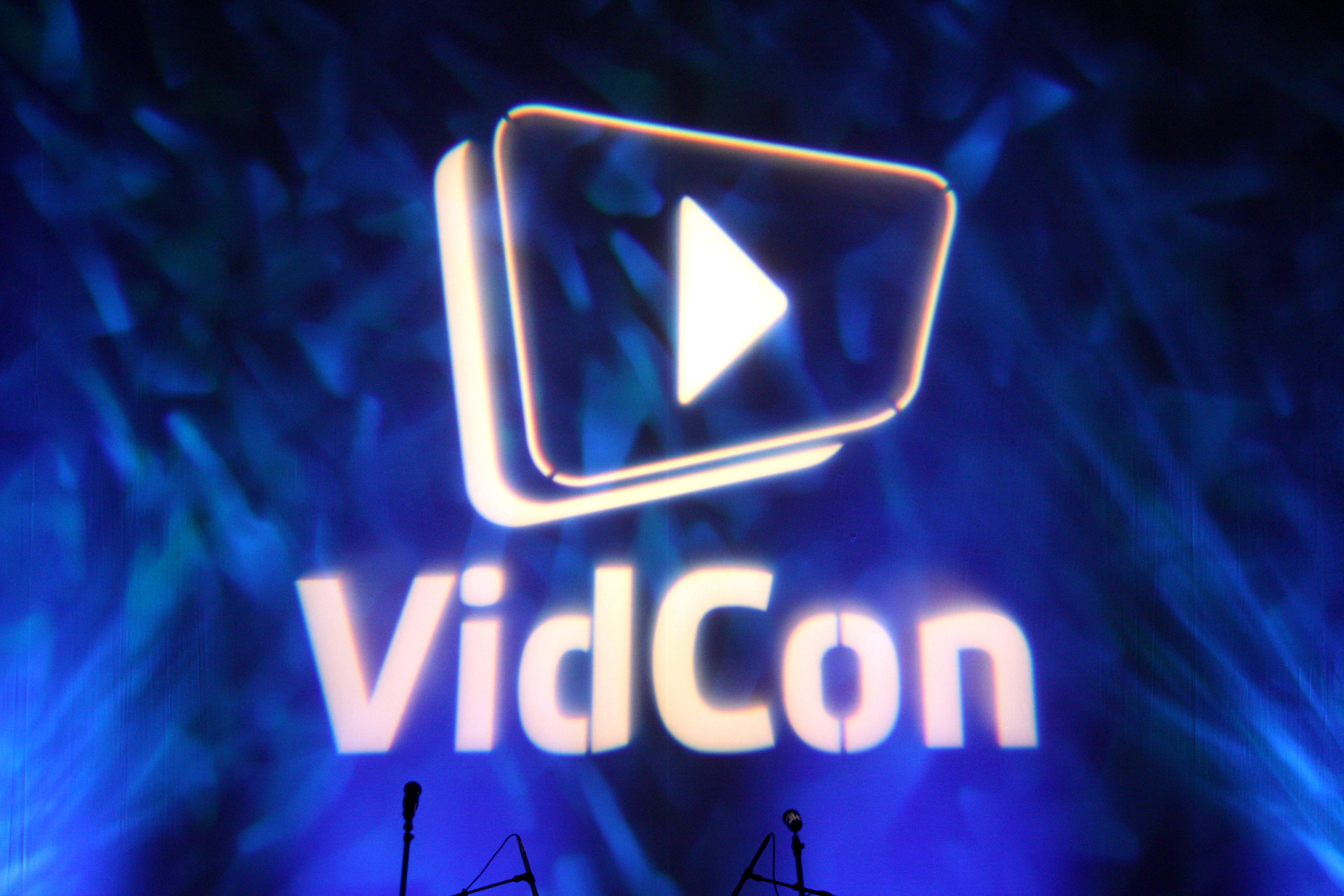 A sign for VidCon 2012 at the Anaheim Convention Center in Anaheim, California.